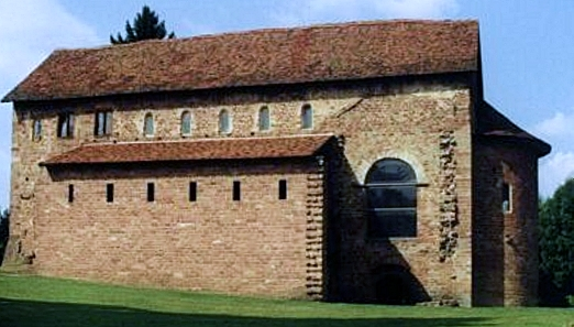 The Einhardsbasilika in Michelstadt, Germany is a church (originally) from the 9th century